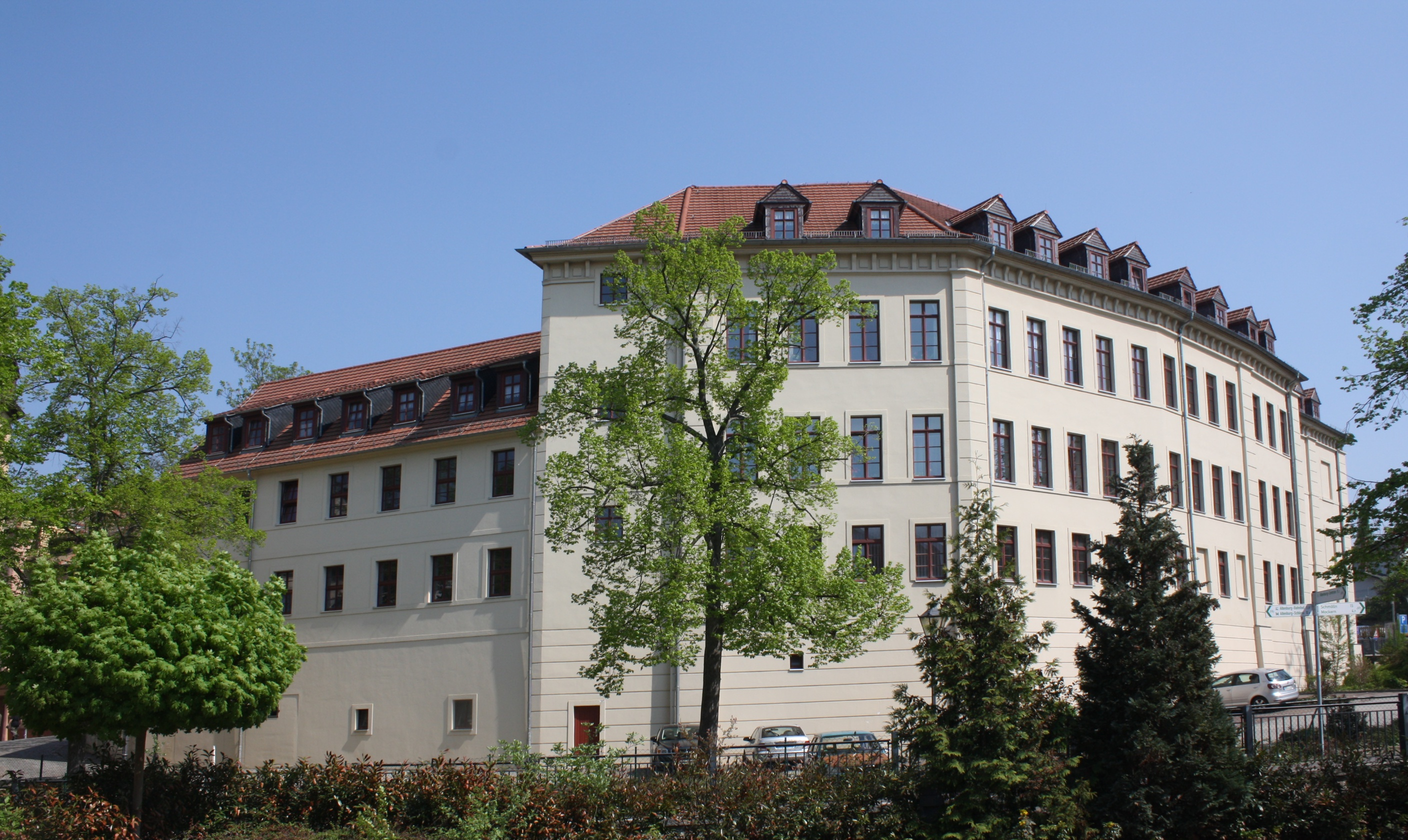 So called Frauenfels, an old manor in Altenburg/Thuringia